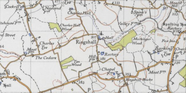 20th century map of Ringshall parish, Suffolk